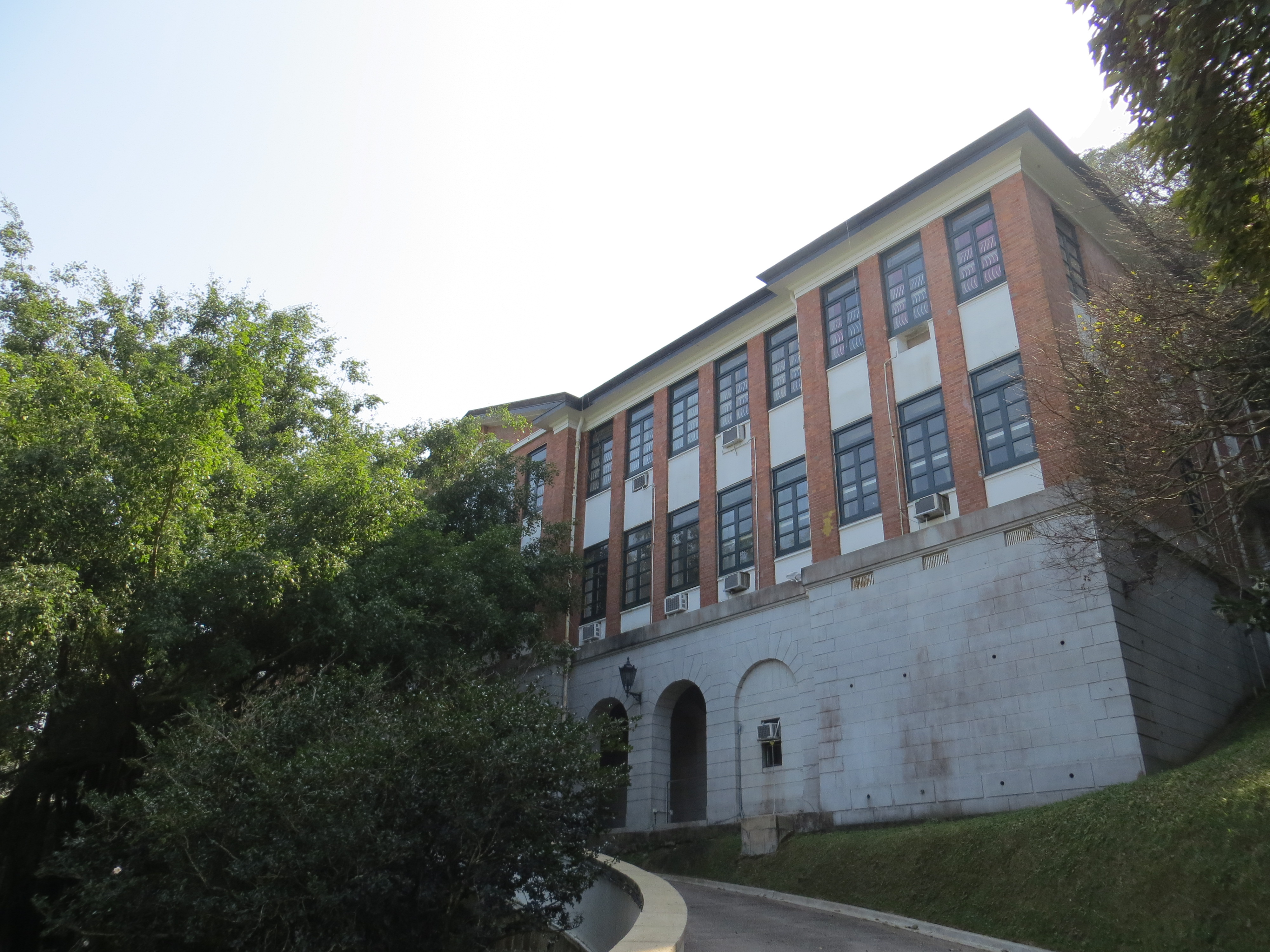 Victoria House, 15 Barker Road, Hong Kong. It is the Chief Secretary's residence.中文（香港）: 政務司司長公館。白加道15號，香港。